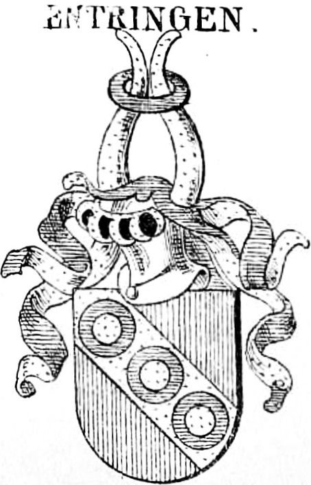 Coats of arms of the von Entringen Family